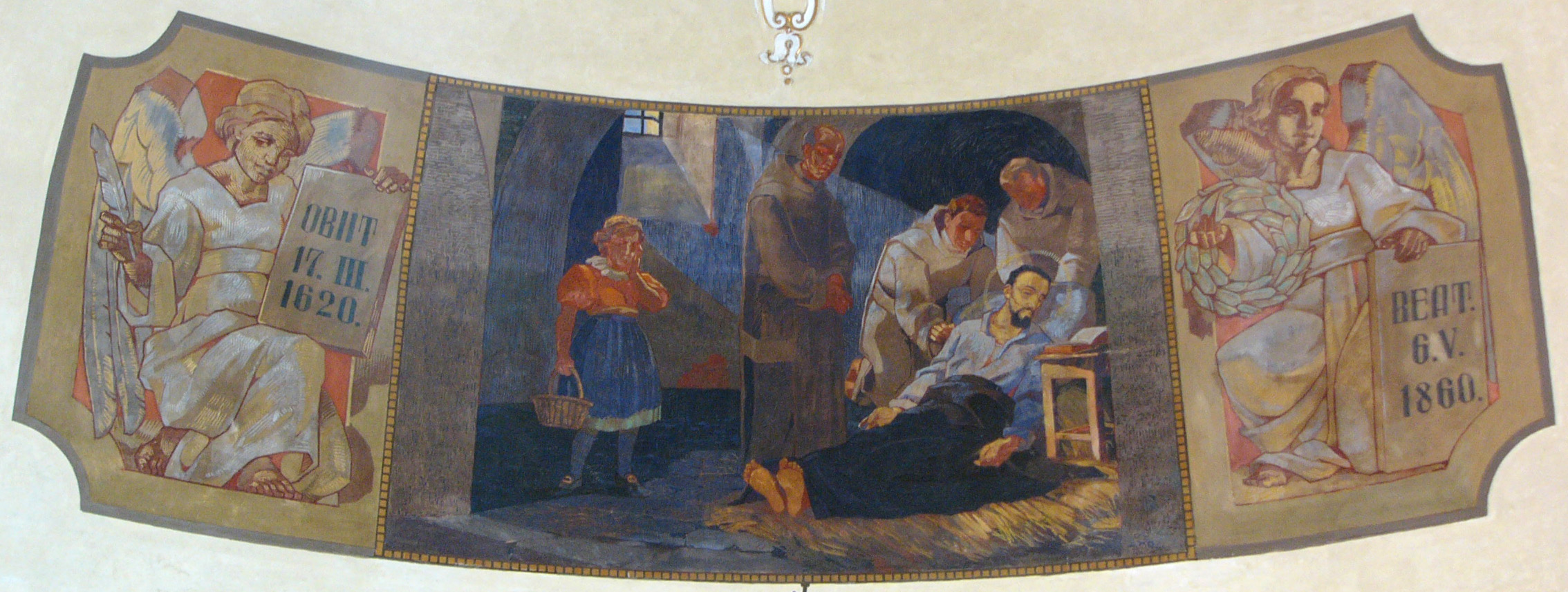 Fresco of incarceration of John Sarkander. Fresco by Jano Köhler is in St. Jan Sarkander chapel (Sarkandrova kaple) in Olomouc (Czech Republic).